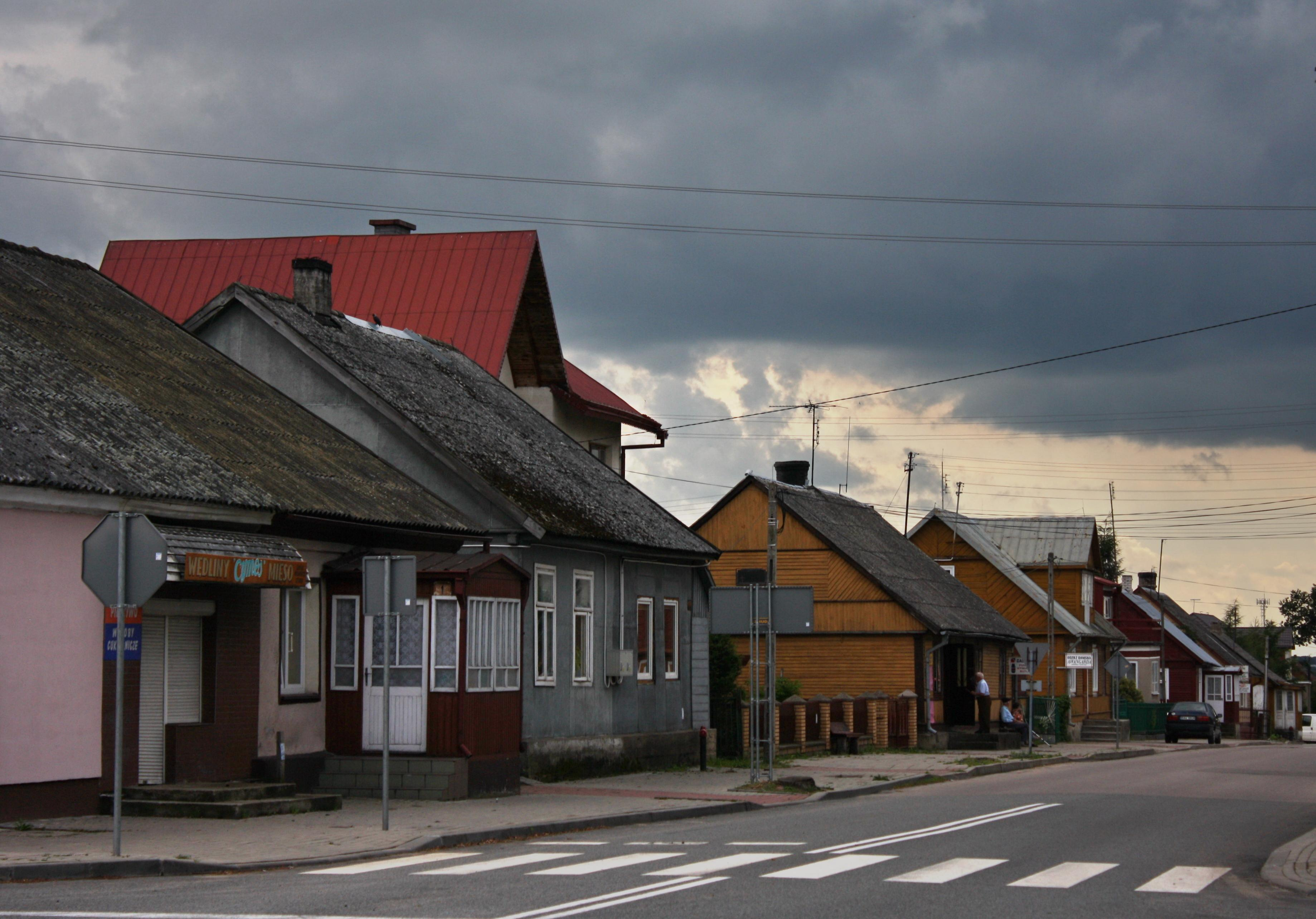 Suchowola (Podlasie Voivodeship), Former Market Square